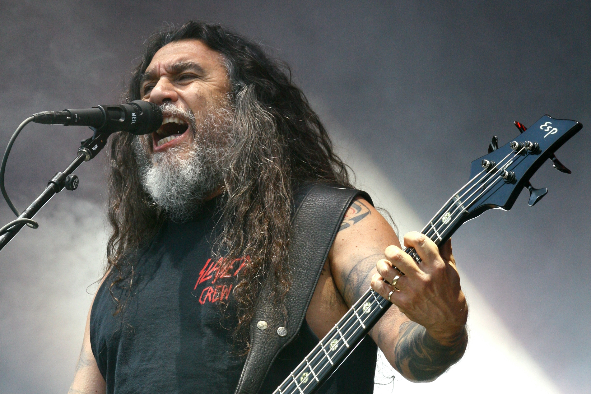 Tom Araya, singer of Slayer, Rock im Park Festival 2014. Festivalsommer This photo was created with the support of donations to Wikimedia Deutschland in the context of the CPB project "Festival Summer".